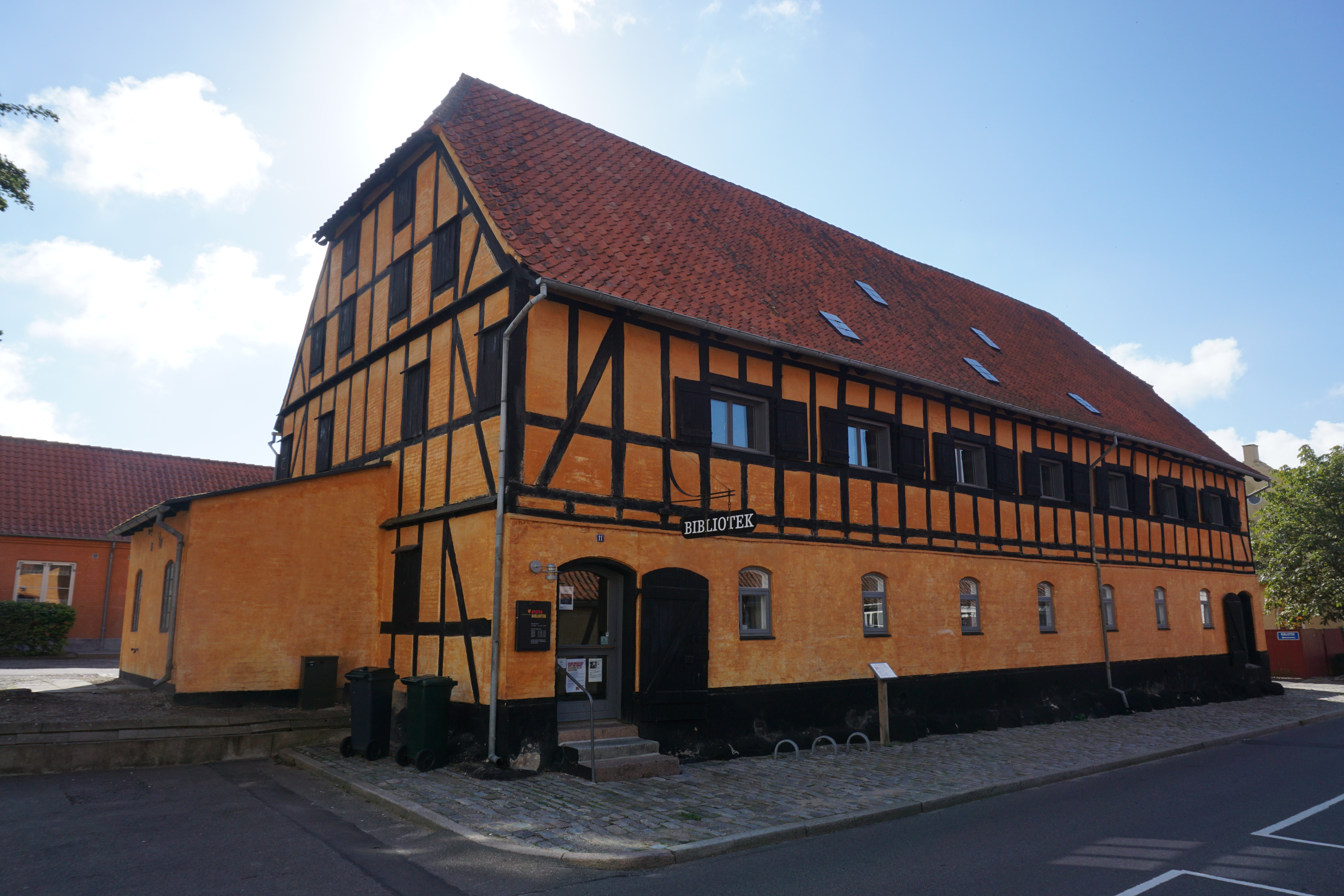 Clausens Pakhus, now public library, at Adelgade 11 in Nysted, Guldborgsund Municipality, Denmark